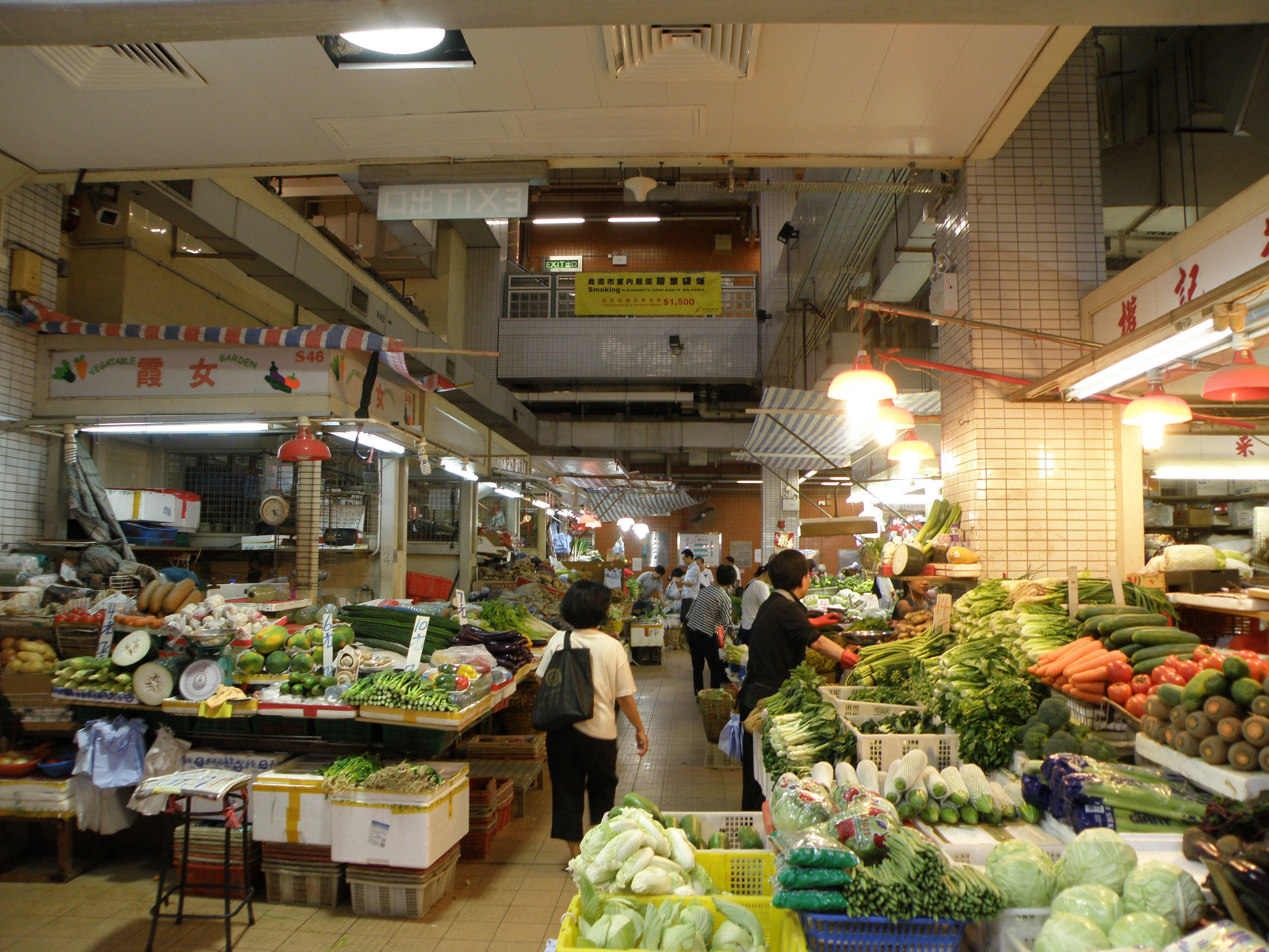 Sai Ying Pun Market in Sai Ying Pun, Hong Kong.